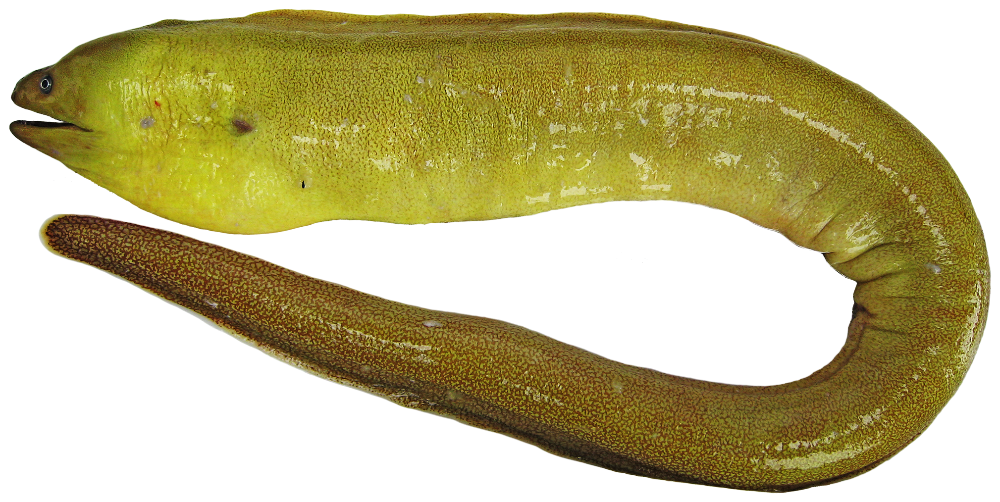 Gymnothorax maderensis (Johnson, 1862)—sharktooth moray, 300 mm TL. Photo by W Toller.